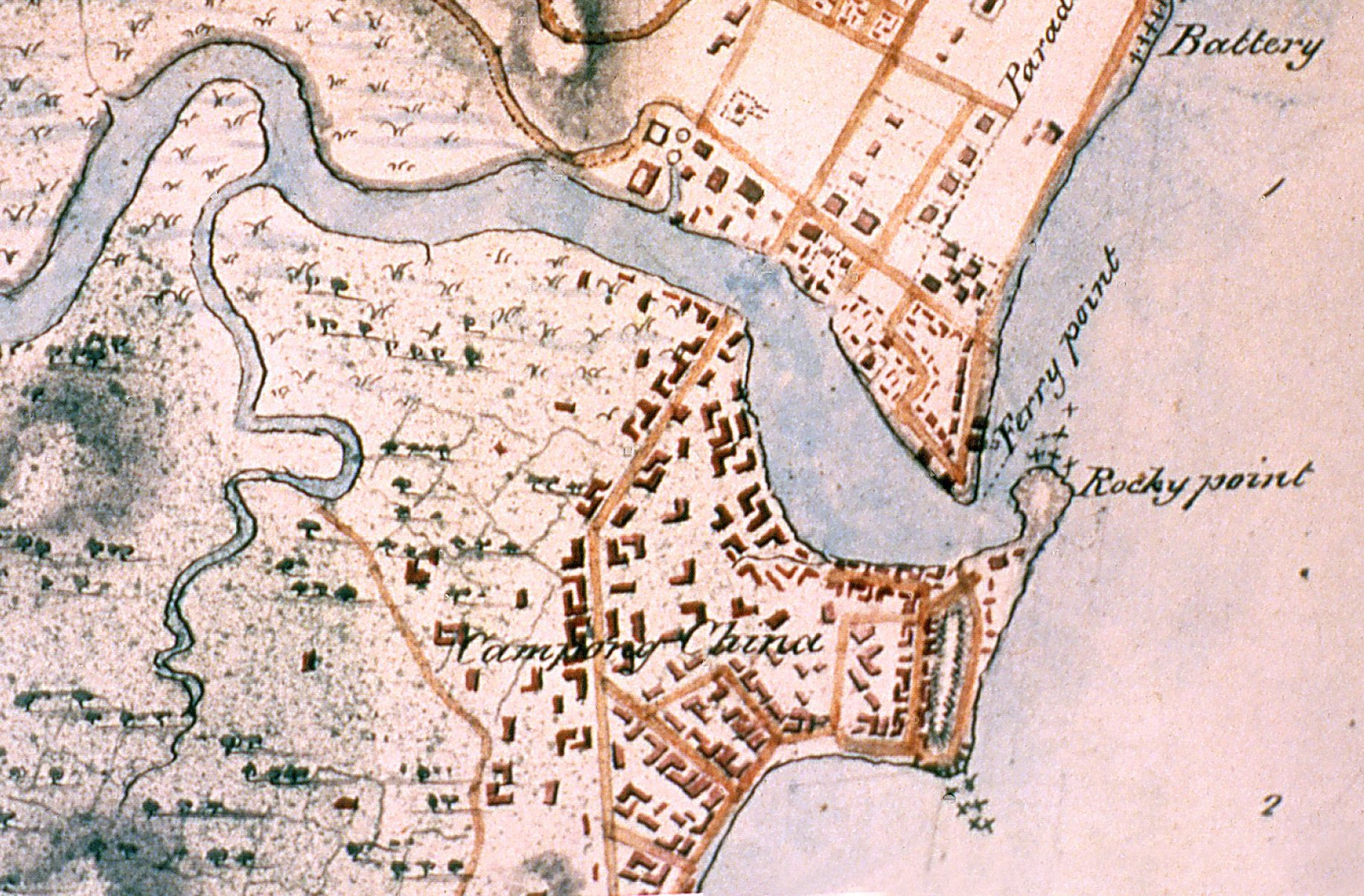 A survey map of Singapore showing the old lines of Singapore; the Singapore River; and Rocky Point, where the ancient sandstone slab which the Singapore Stone is a fragment of once stood.